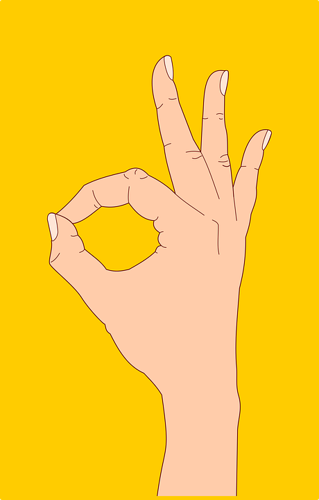 OK hand gesture with different meanings in cultures across the world